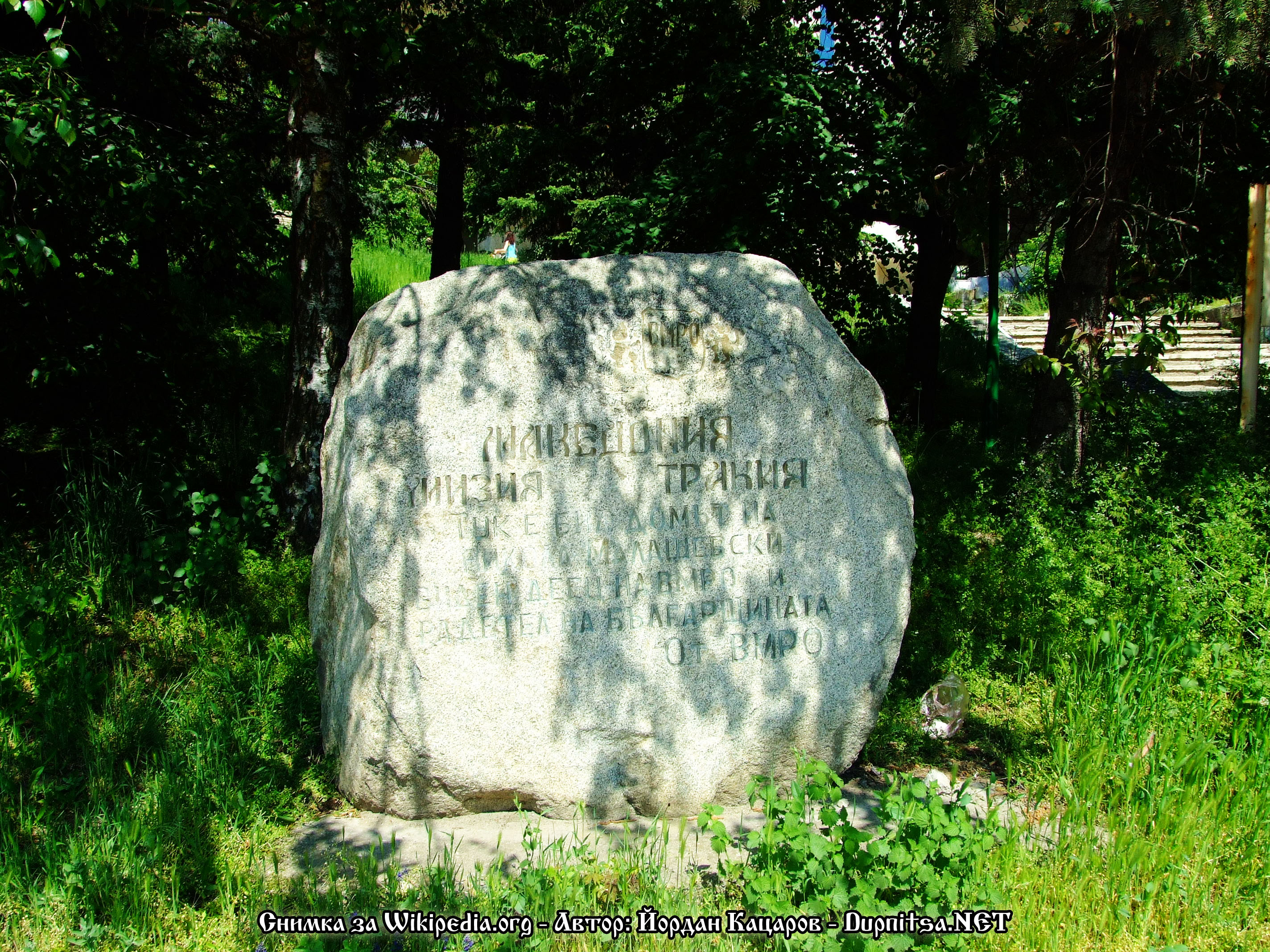 VMRO Dupnitsa